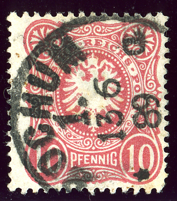 Stamp of the Germany, 10 Pfennig issue 1880, cancelled at BOCHUM 1 (North Rhine - Westphalia) in 1889.